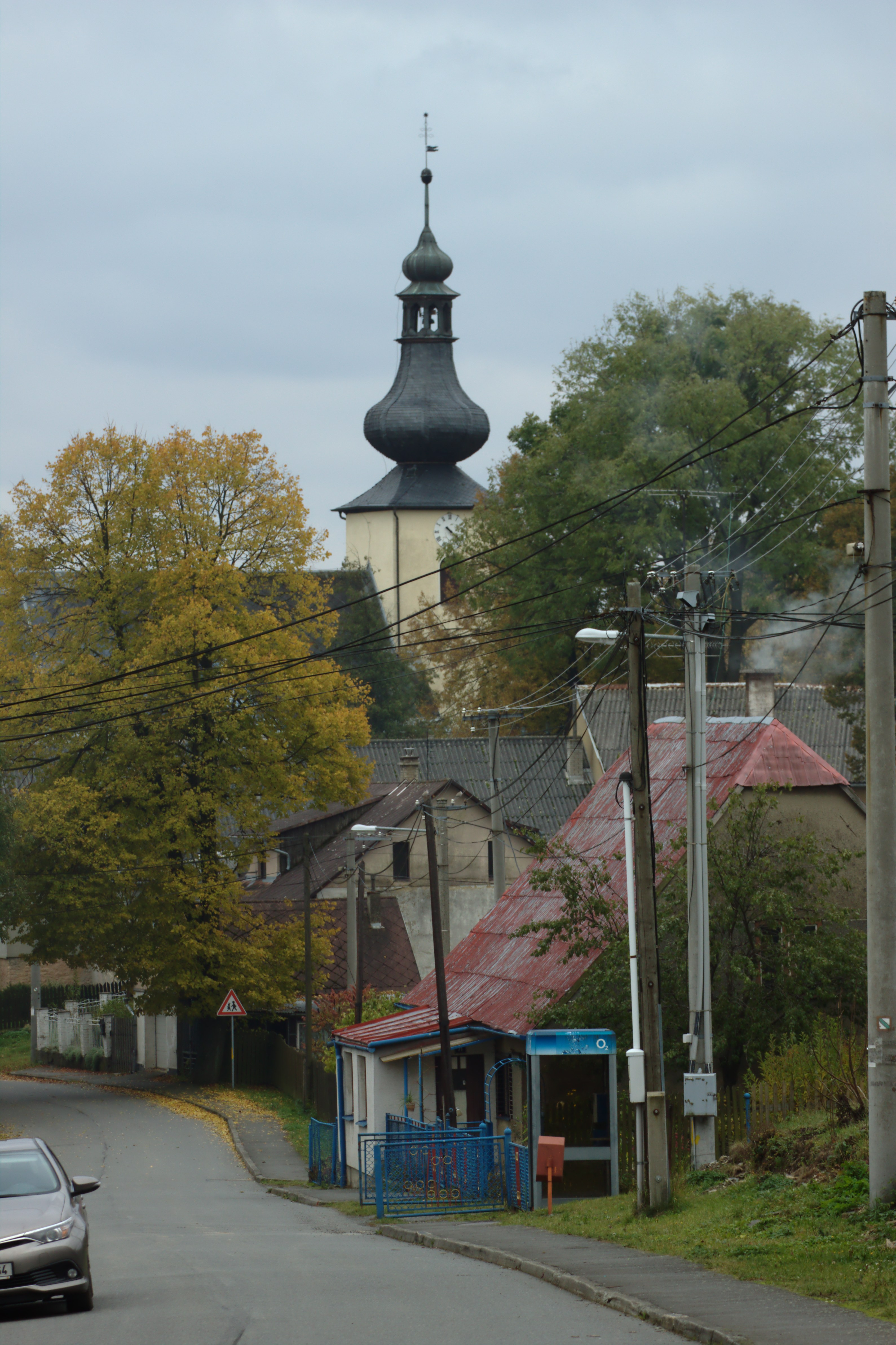 A church tower and buildings in the village of Svatoňovice, Moravian-Silesian Region, CZ